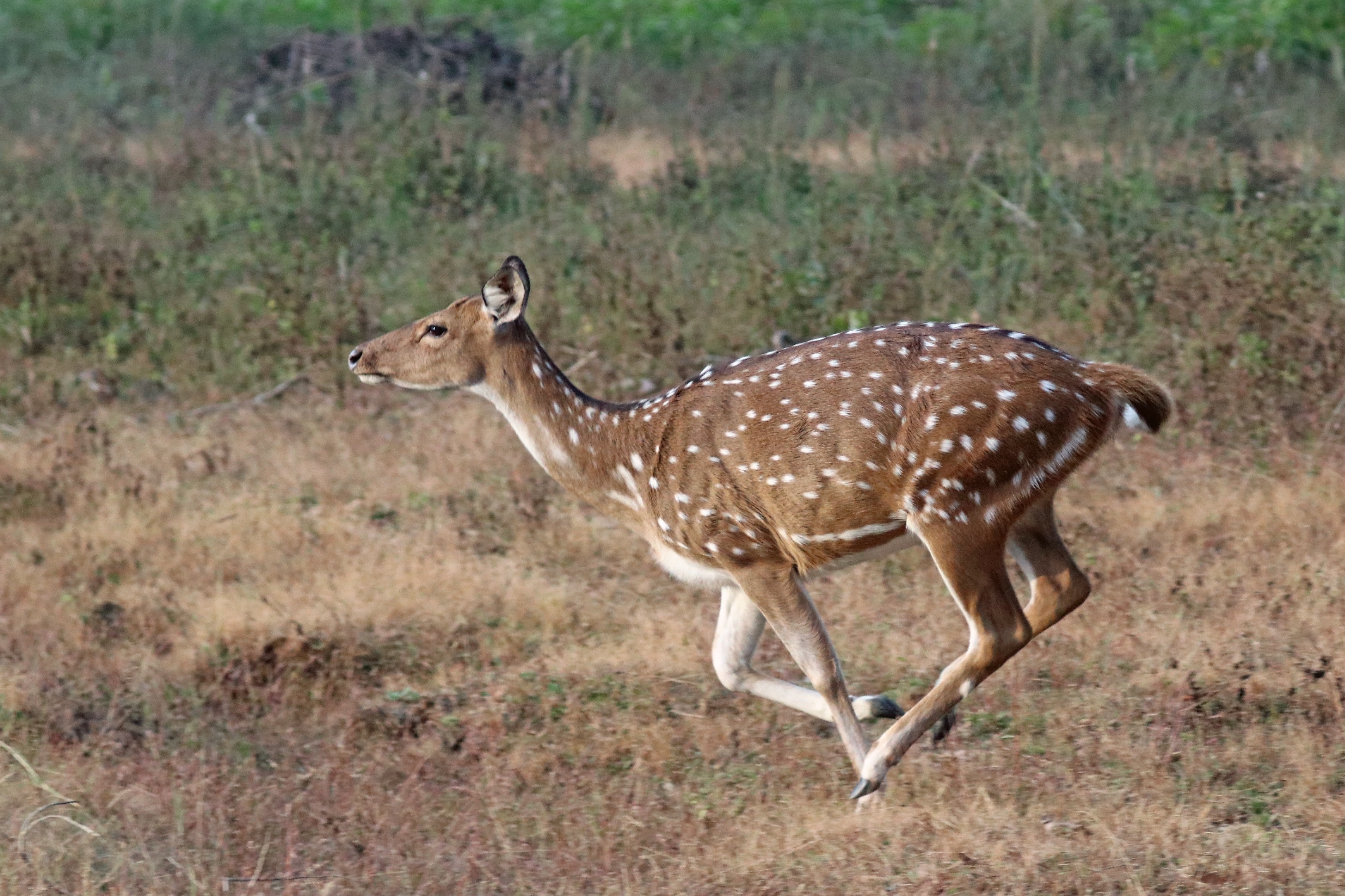 Spotted deer (Axis axis) female running, Kanha National Park, MP, India